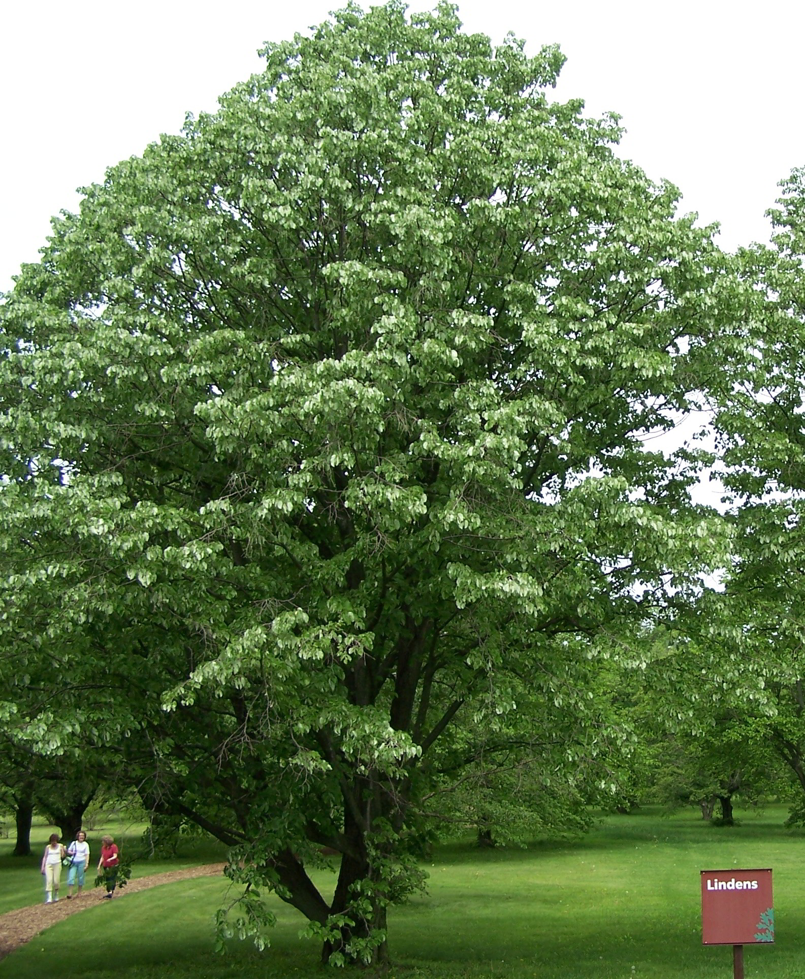 Silver Lime [Linden], Tilia tomentosa, Morton Arboretum acc. 1040-65*2